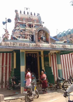 Thanjavur attumanthai murugan temple தஞ்சாவூர் ஆட்டுமந்தை முருகன்கோயில்